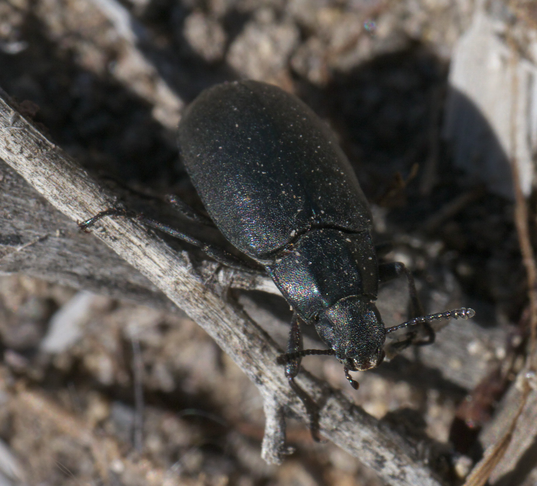 Bothrotes canaliculatus, Family: Darkling Beetles, ID Confidence: 98